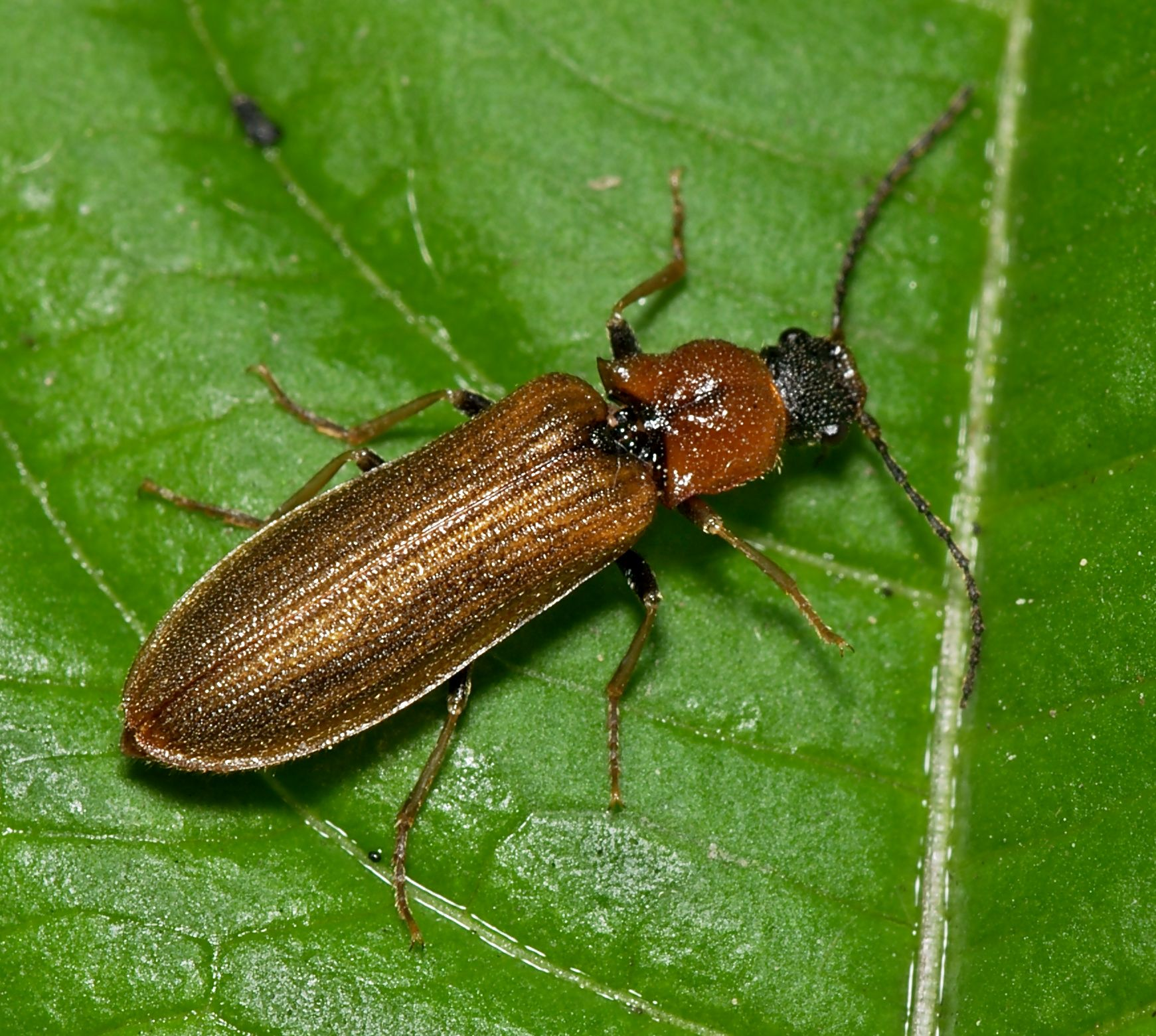 Denticollis linearis from Koenigsforst near Cologne, Germany.